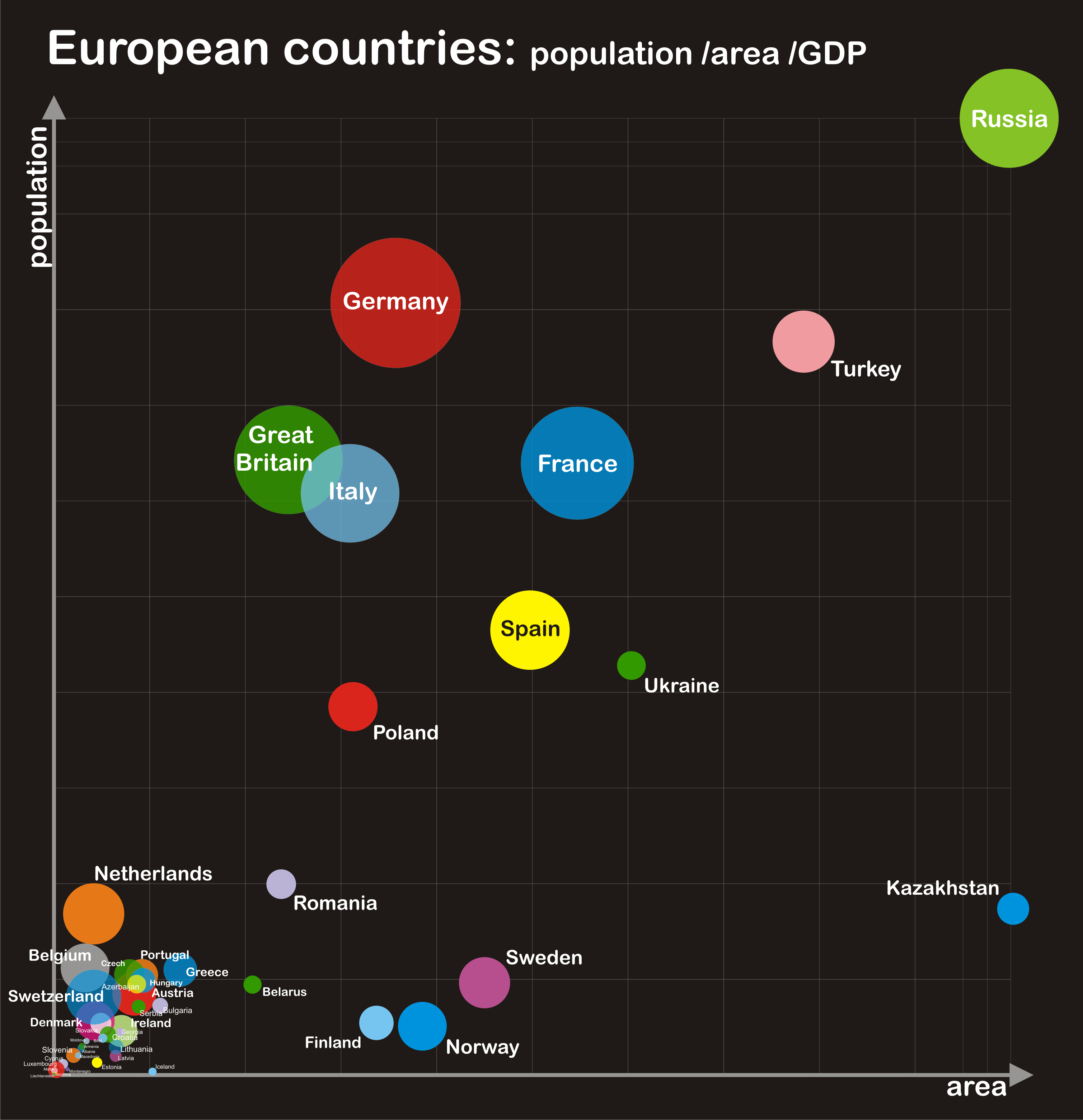 iScore: European countries - population/area/GDP